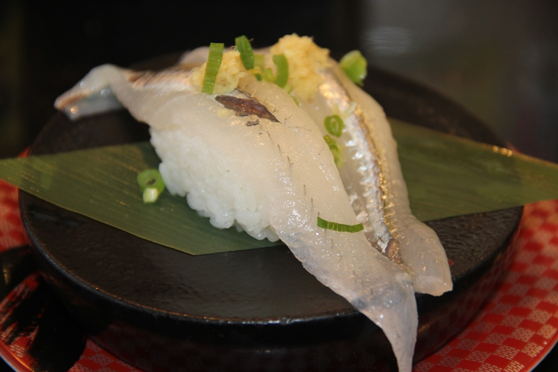 Sayori-Nigirizushi, Sushi